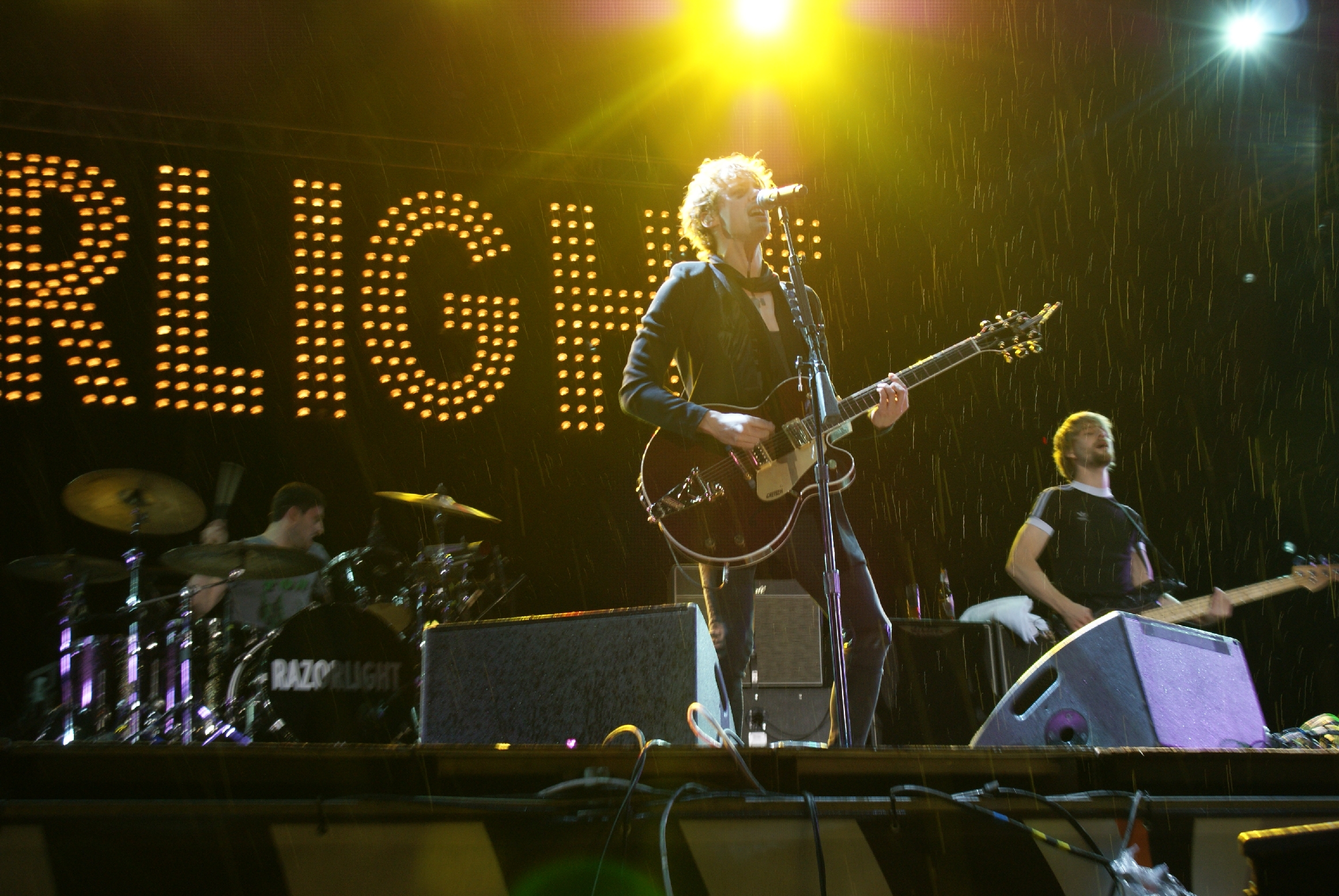 Orange Warsaw Festival 2009, Pl. Defilad, Warsaw, PolandRazorlight